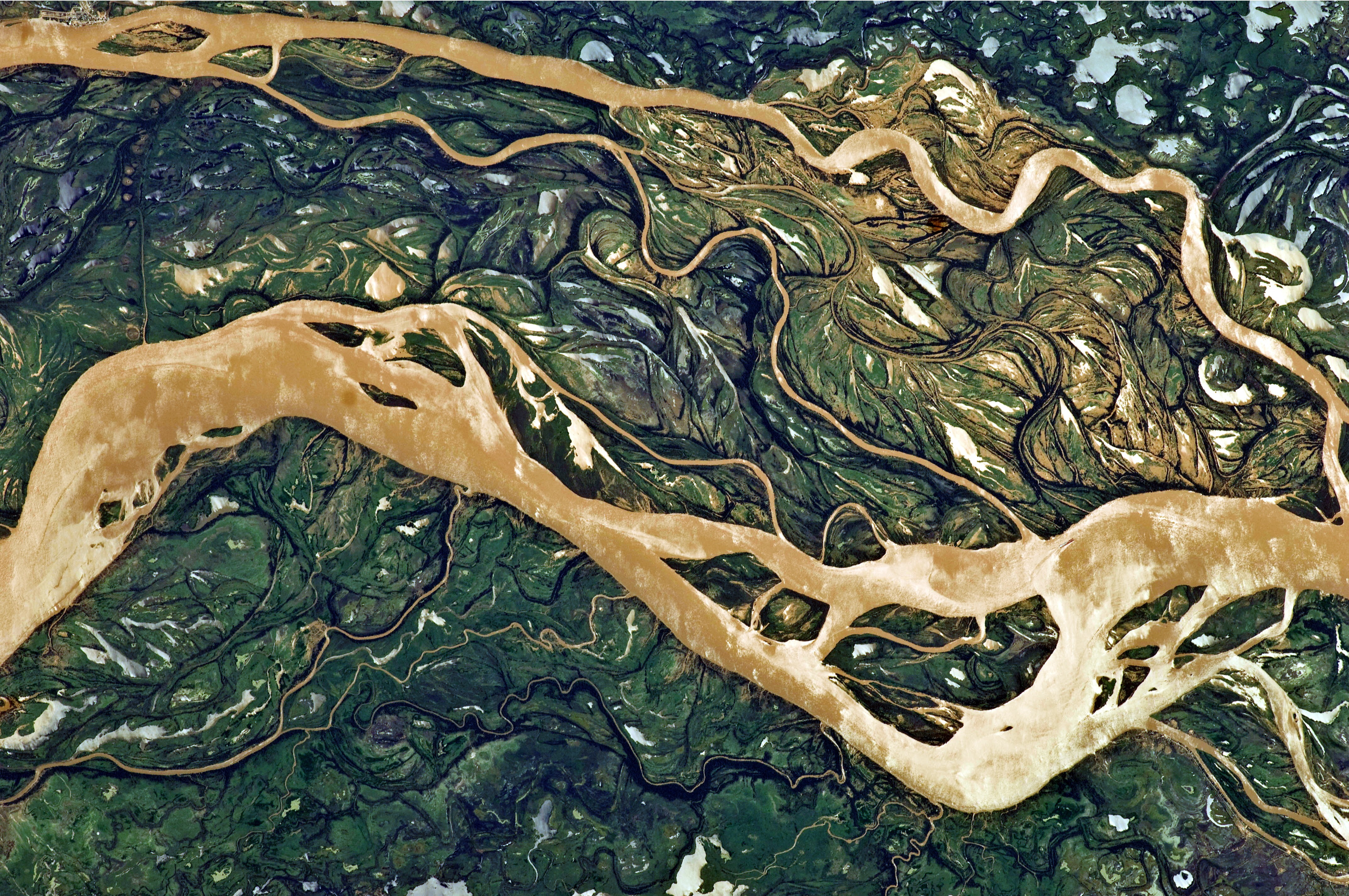 This astronaut photograph shows a 29-kilometre stretch of the Paraná, downstream of the small city of Goya, Argentina (just off the top left of the image). The Paraná River ranges up to 3 kilometres wide along the reach illustrated in this image. The main channel is deep enough to allow smaller ocean-going ships to pass north to the capital city of Asunción, Paraguay, fully 1,200 kilometres inland and well out of the image. The river’s dark brown shading indicates a heavy load of muddy sediment; smaller side channels also carry this mud. Numerous lakes are typical on active floodplains, and appear here as irregular bodies of water. Some appear brown, indicating that they probably have been refilled during recent rises and floods of the active channels. The Paraná floodplain occupies the entire image; it is so wide—18 kilometres in this view—that its banks are not visible. Numerous curved, meandering channels are the most prominent characteristic of the floodplain, indicating prior positions of the river and its channels. As riverbeds move laterally by natural processes, they leave remnants of their channels, which appear as lakes and finally fill with mud. This is an excellent image for illustrating these meander forms. From a geological standpoint, it is interesting that almost all of the old channels are similar in curvature to today’s side channels. However, almost none of them seem to show prior positions of the main, wide Paraná channel.